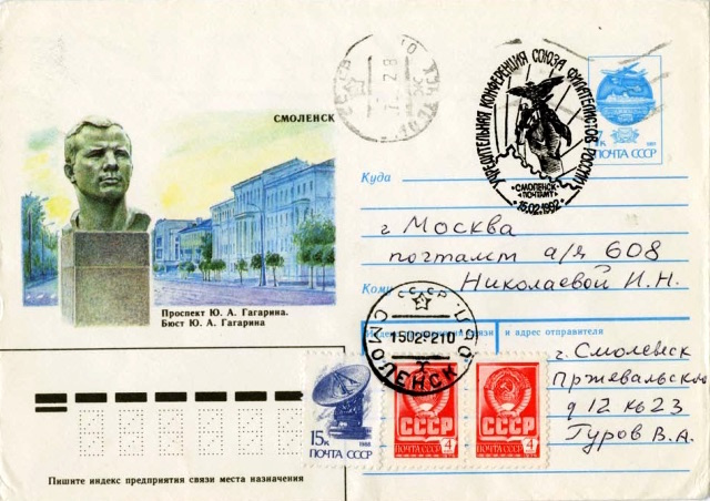 Cover of the Soviet Union sent from Smolensk to Moscow on 15 February 1992, the day when the Union of Philatelists of Russia was organized. Stamped envelope with an imprinted definitive stamp of the Soviet Union was used and cancelled with a special postmark dedicated to this event. The letter was also franked with three more definitive stamps of the Soviet Union.